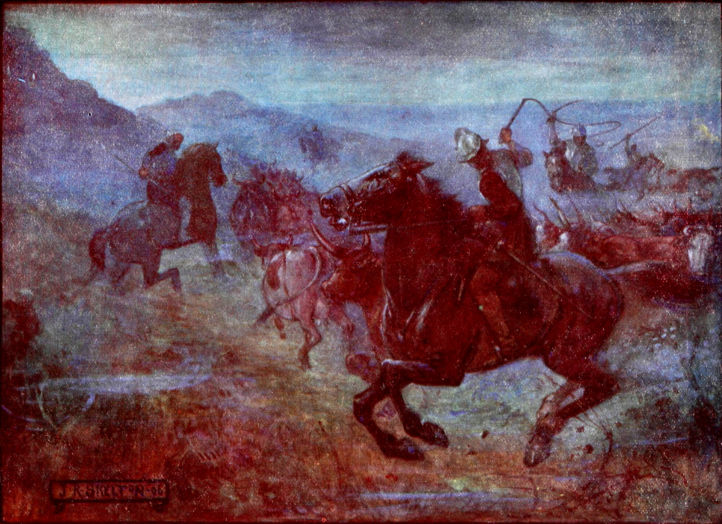 Scotland's story: a history of Scotland for boys and girls, by Marshall, H. E. (Henrietta Elizabeth), b. 1876. Published 1907.